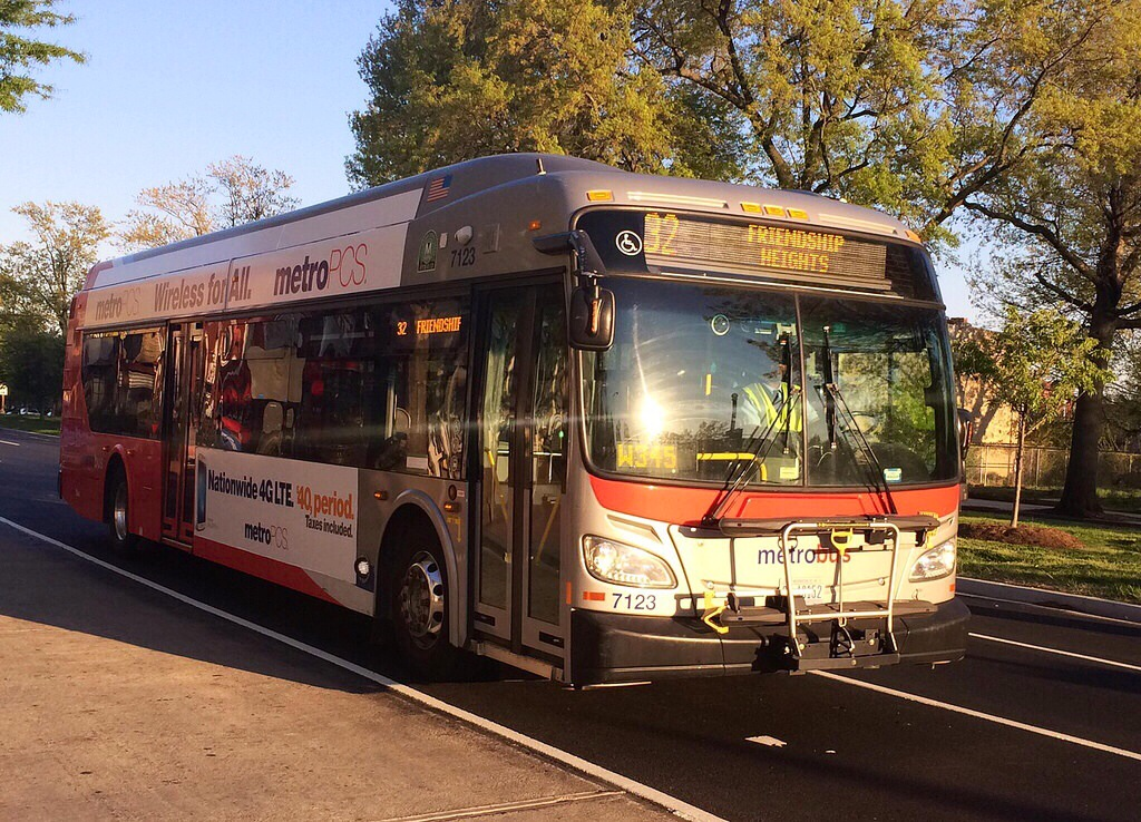 2011 WMATA Xcelsior